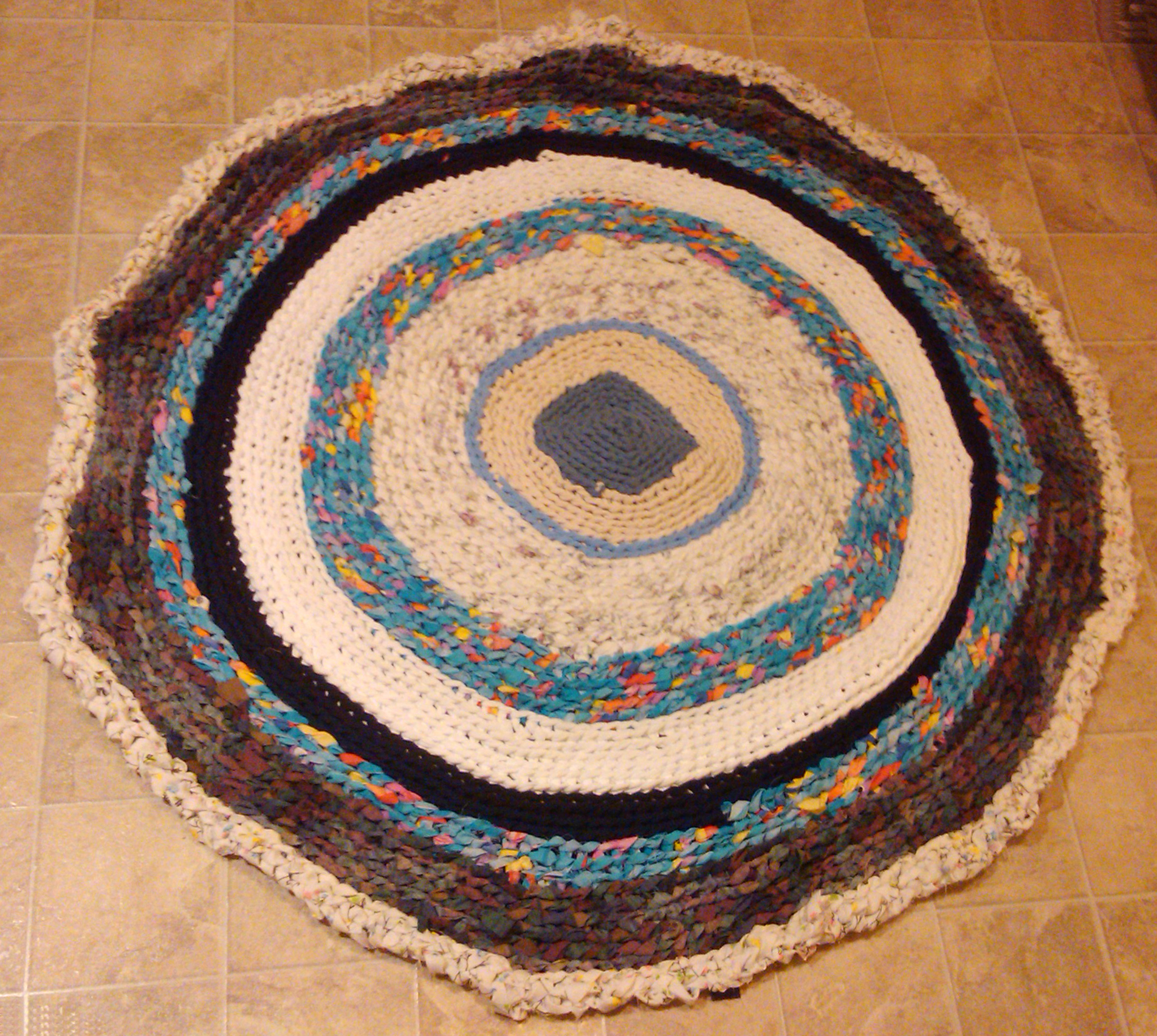 Rug constructed out of fabric strips cut from second use t-shirts and bed linens.